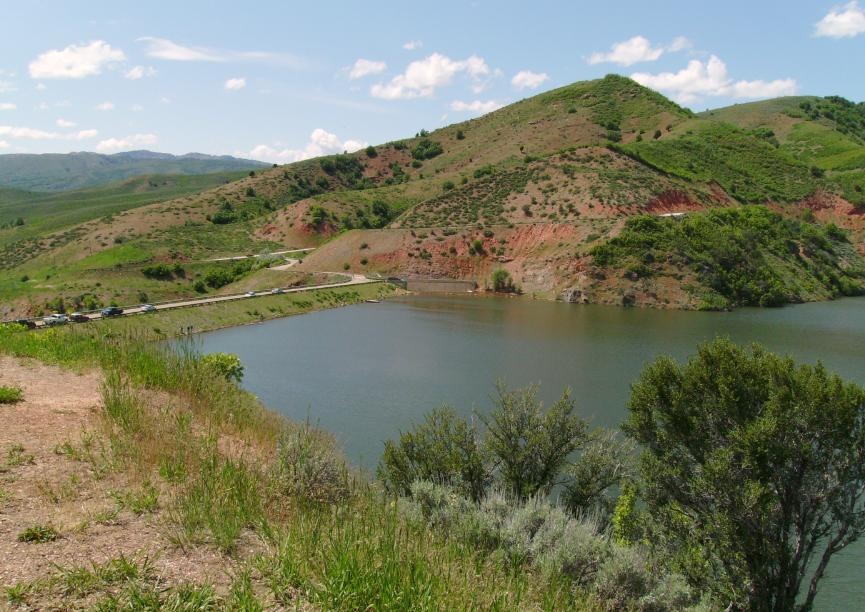 Dam at Causey Reservoir near Ogden, Utah, United States.